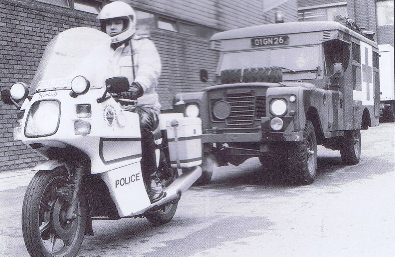 This photo was taken in 1990 and shows an officers on escort duty. For more images from our past, please visit .